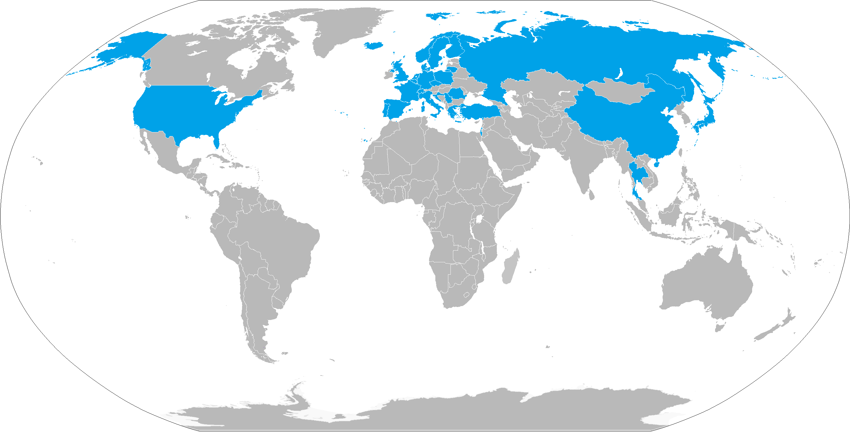 SAS destinations countries.